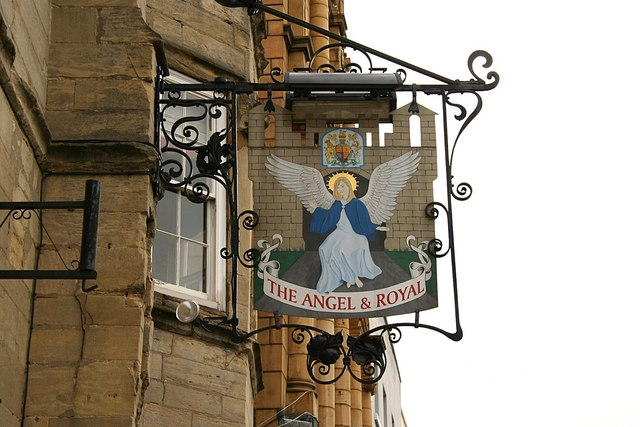 The sign of the Angel & Royal Traditional sign on the historic Angel and Royal Inn